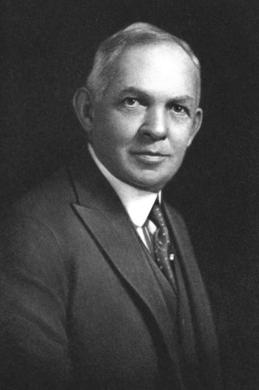 Portrait of Julian Francis Detmer from Appleton's Cyclopædia of American Biography, Volume X, 1924, pages 304–305